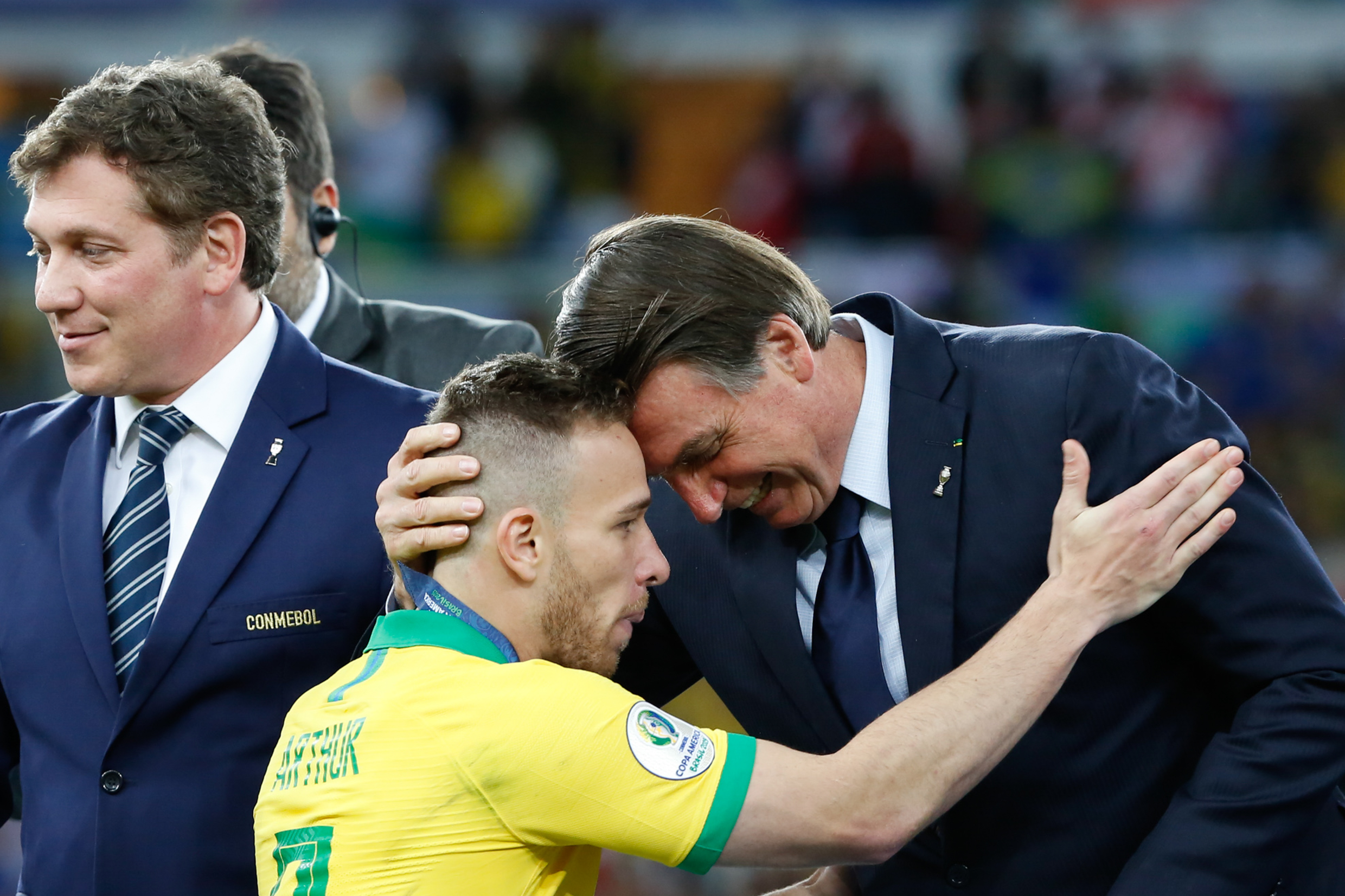 (Rio de Janeiro - RJ, 07/07/2019) Presidente da República, Jair Bolsonaro, e o Presidente da Confederação Sul-Americana de Futebol (CONMEBOL), Alejandro Domínguez, durante entrega da premiação da Copa América 2019. Foto: Carolina Antunes/PR